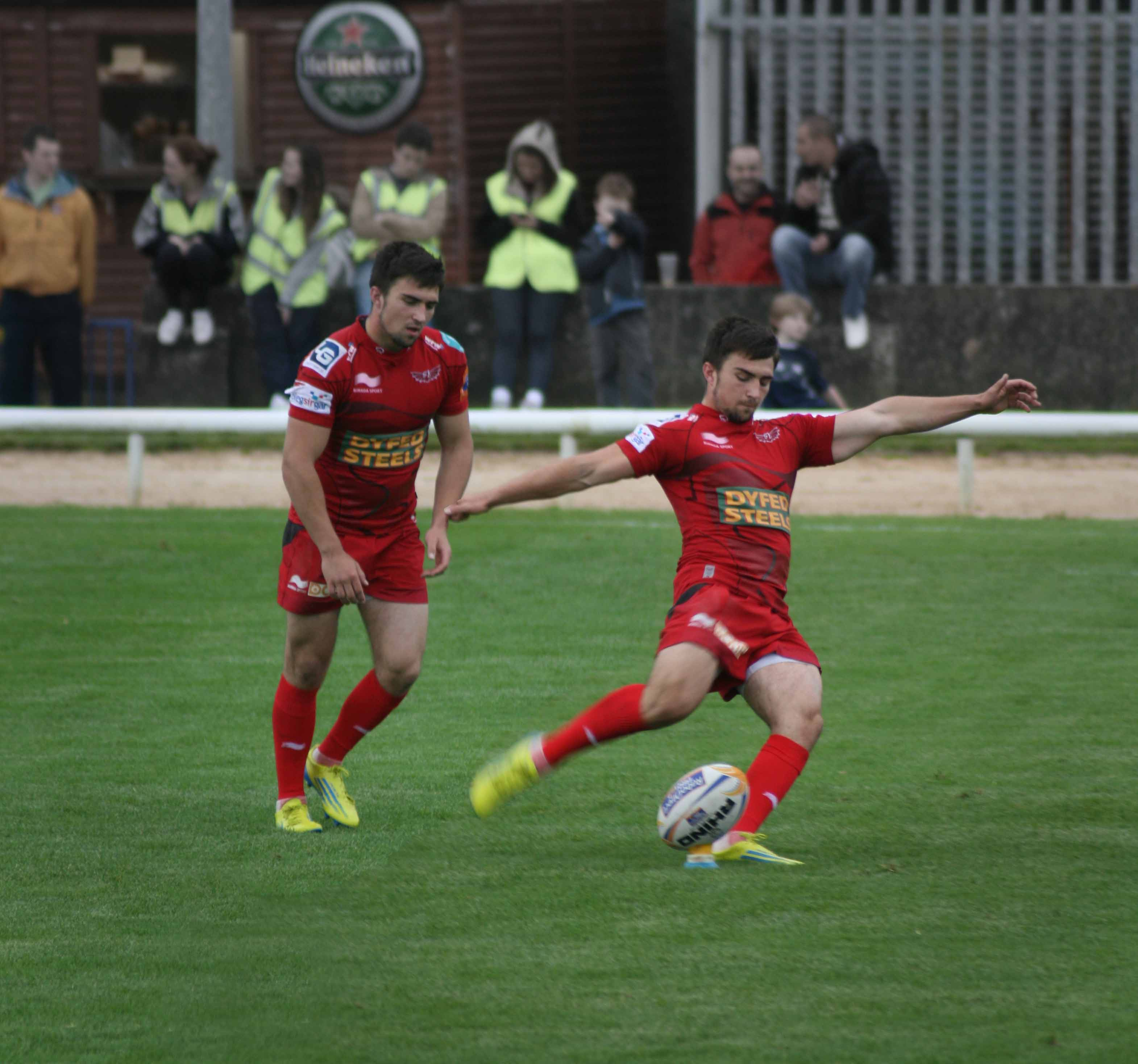 Jordan Edwards, Llanelli Scarlets, converts Jonathan Davies' breakaway try. Merge of 2 shots. Connacht 11 v 24 Scarlets Sat 15th Sept, RaboDirect PRO 12